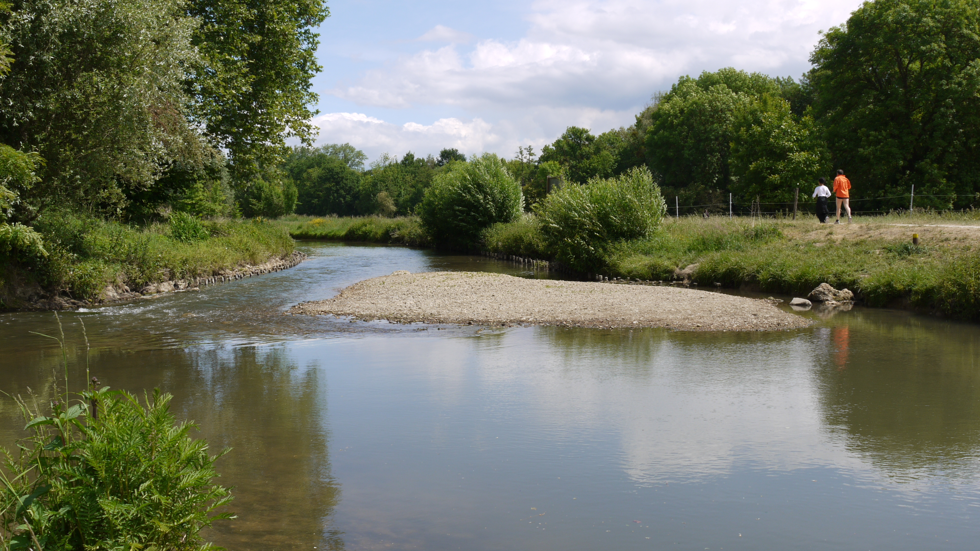 Confluent of Le Mort and the Orge river in Villiers sur Orge (France)